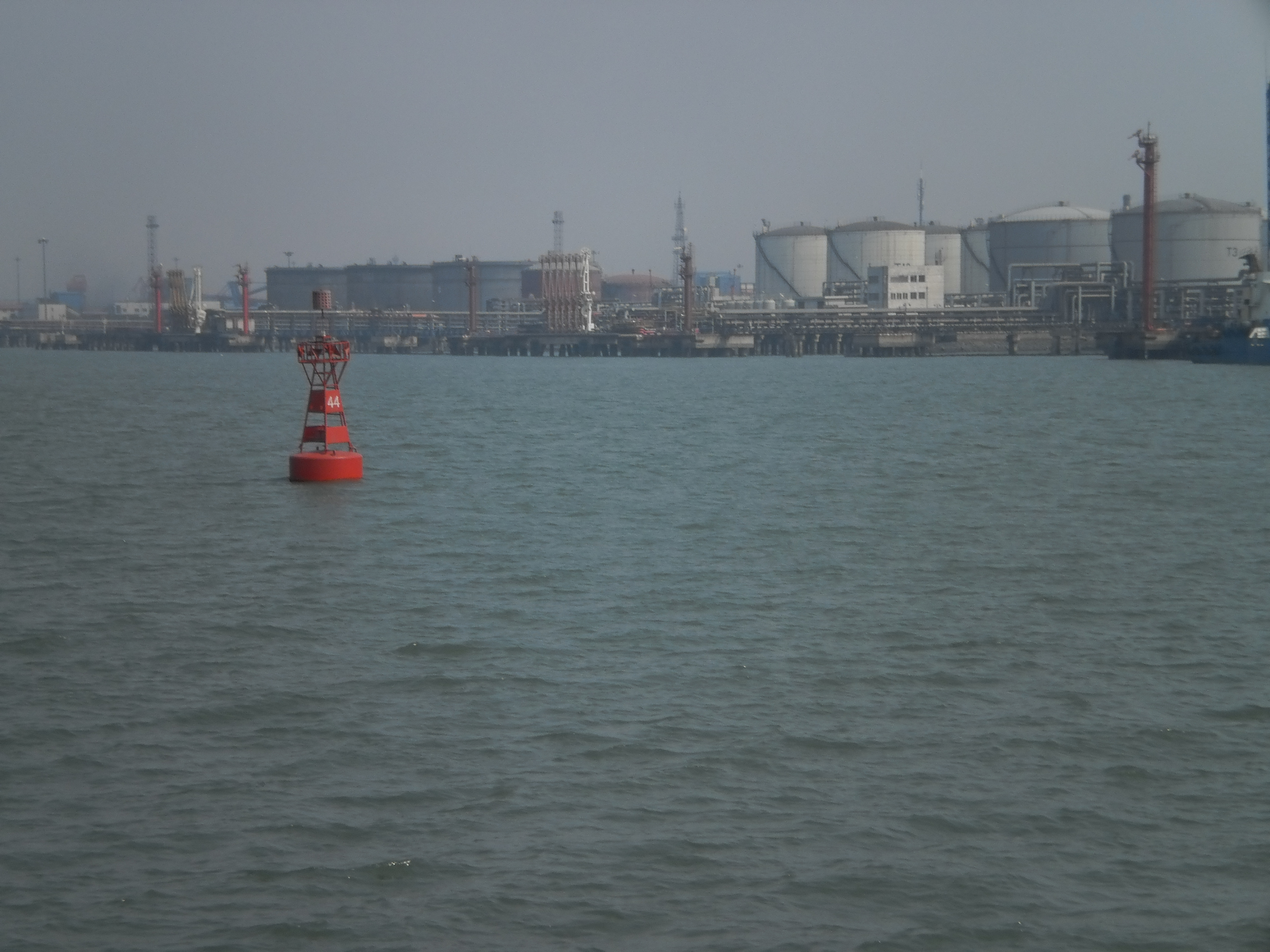 The last port-side buoy of the main channel of the Tianjin Xingang Port. In the background is the Petrochemical terminal and further away, the Coke Terminal (coke as in mineral not beverage).